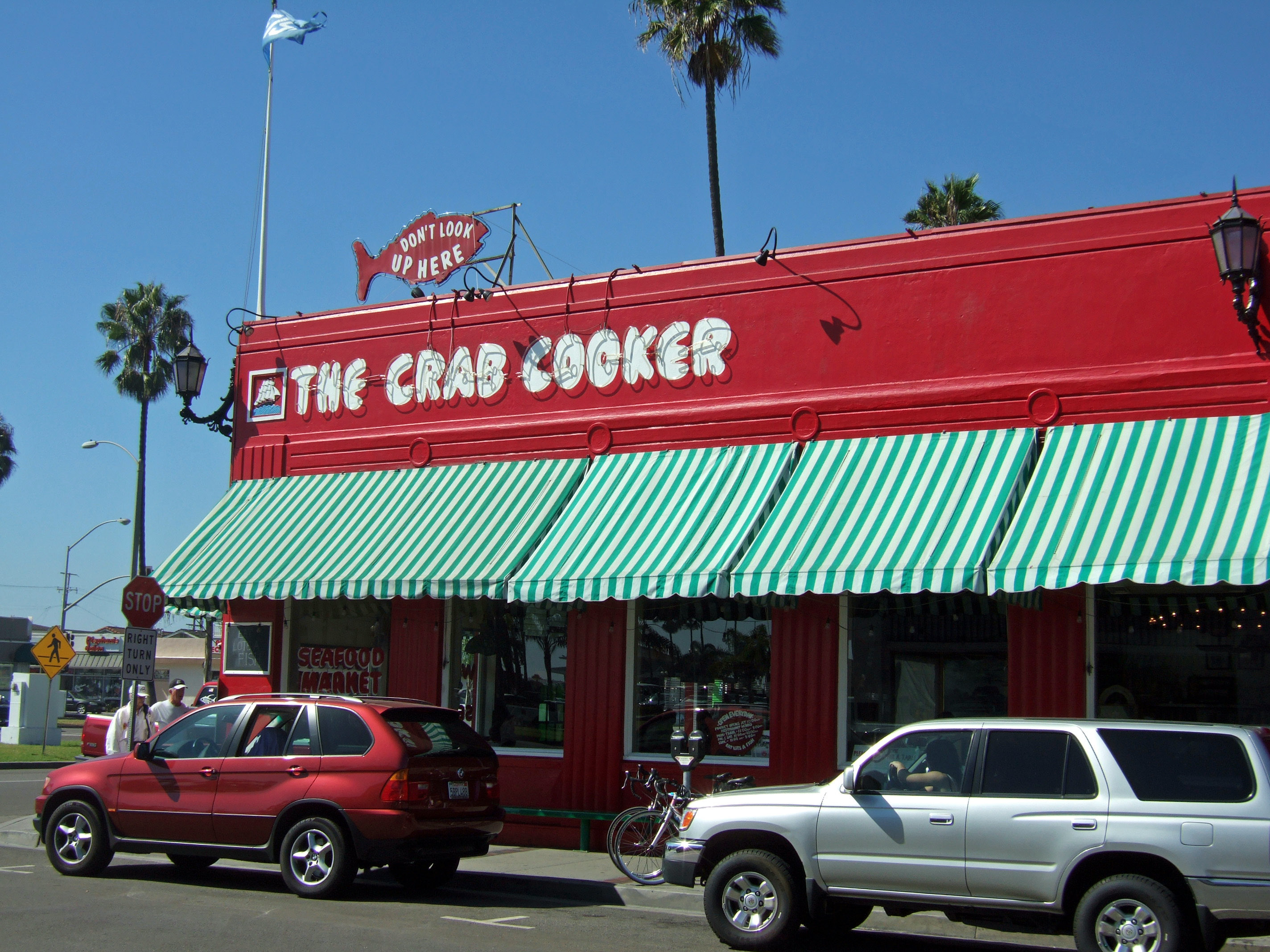 The Crab Cooker in Newport Beach, California